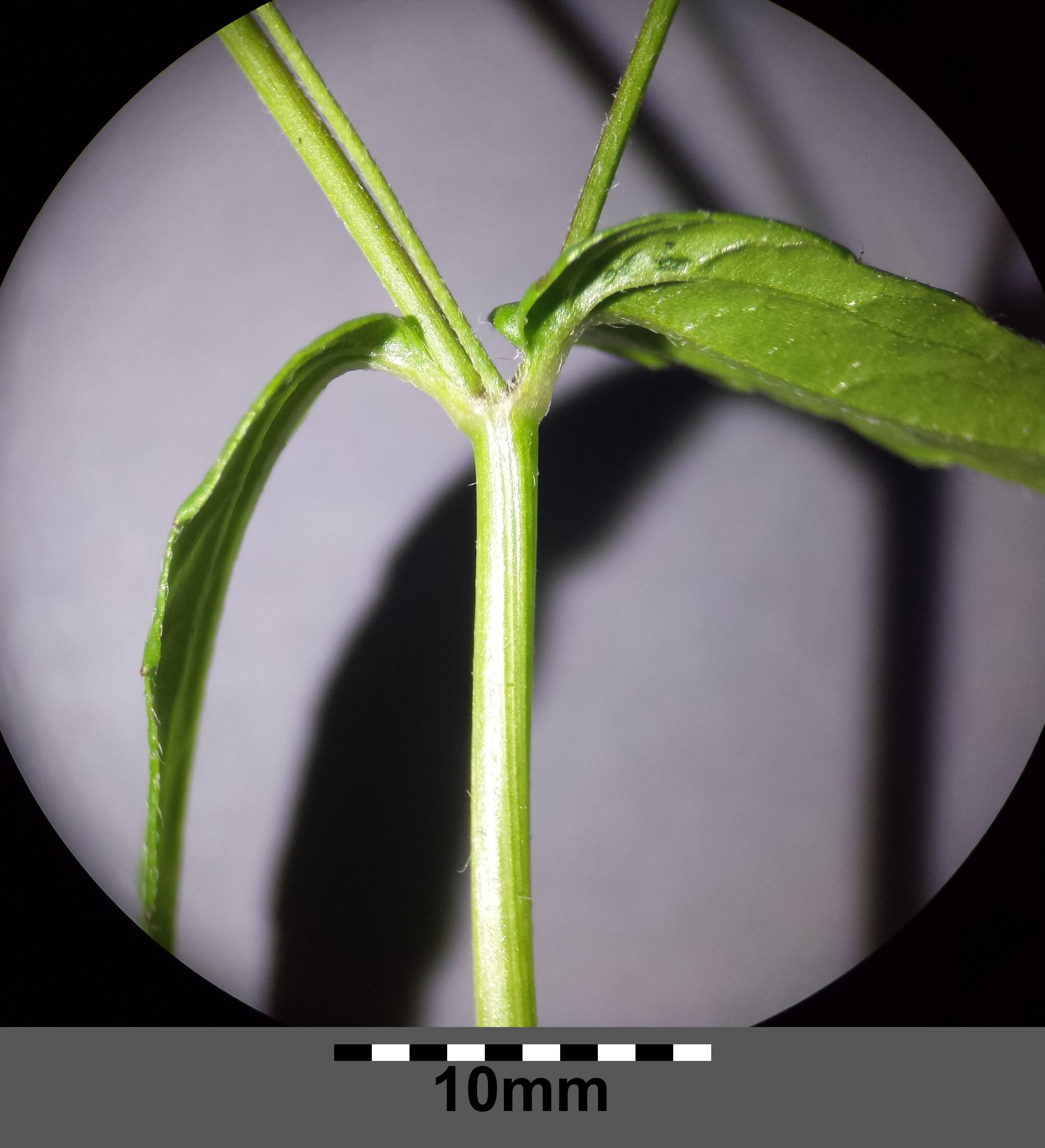 Hairless stipe with leaves Taxonym: Galinsoga parviflora ss Fischer et al. EfÖLS 2008 ISBN 978-3-85474-187-9 Location: Nordmanngasse, Donaufeld, Vienna-Floridsdorf - ca. 160 m a.s.l. Habitat: wet field